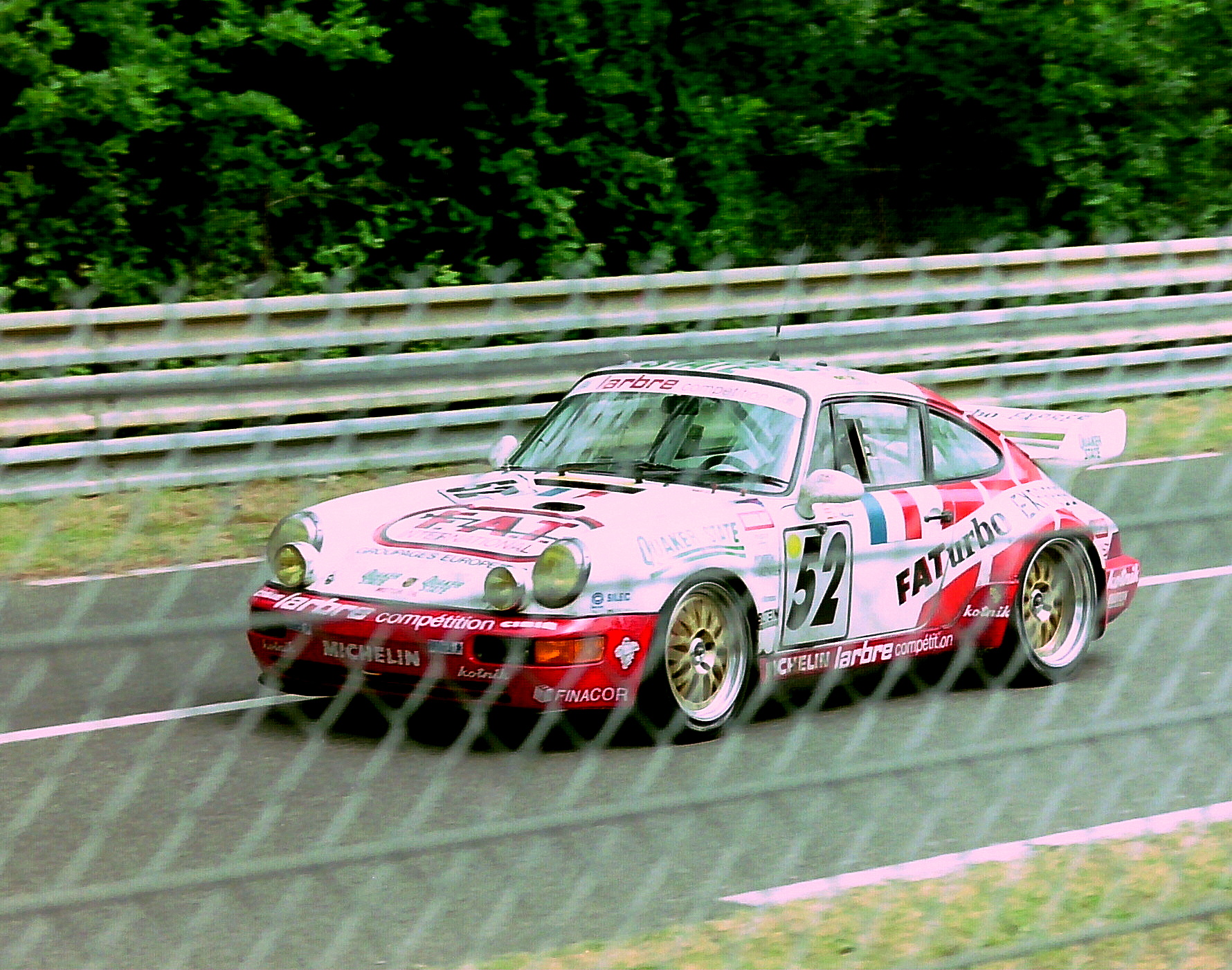 Porsche 911 Carrera RSR - Jesus Pareja, Dominique Dupuy & Carlos Palau approaches Arnage at the 1994 Le Mans